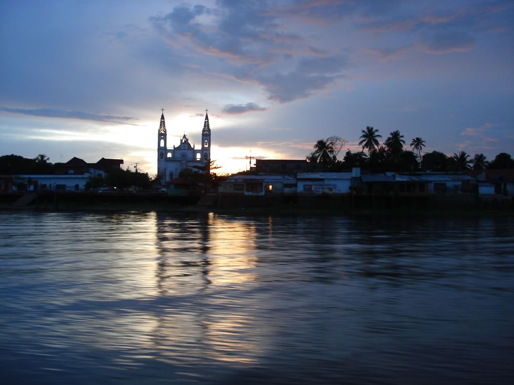 Church of Ayapel, Cordoba. Colombia